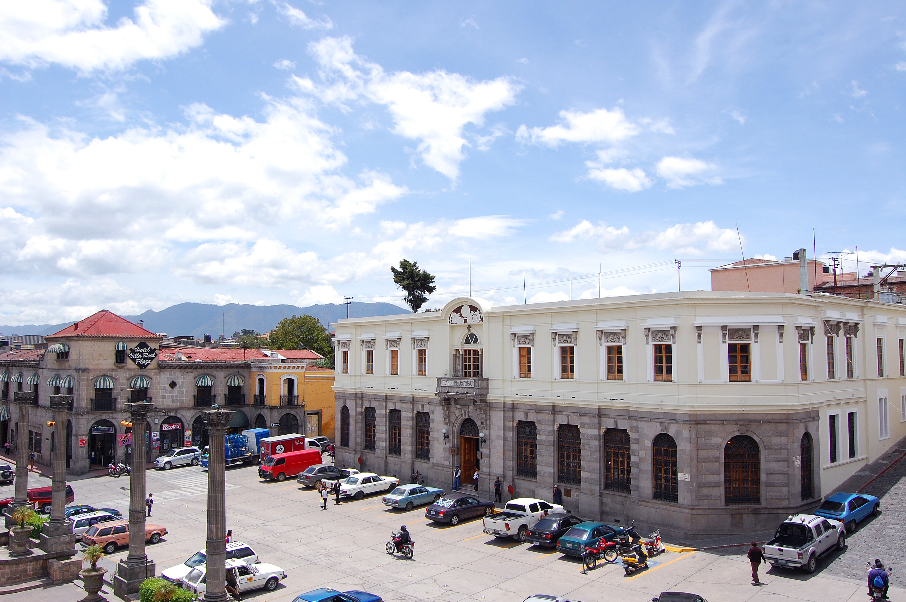 Streets of Quetzaltenango City, Guatemala.